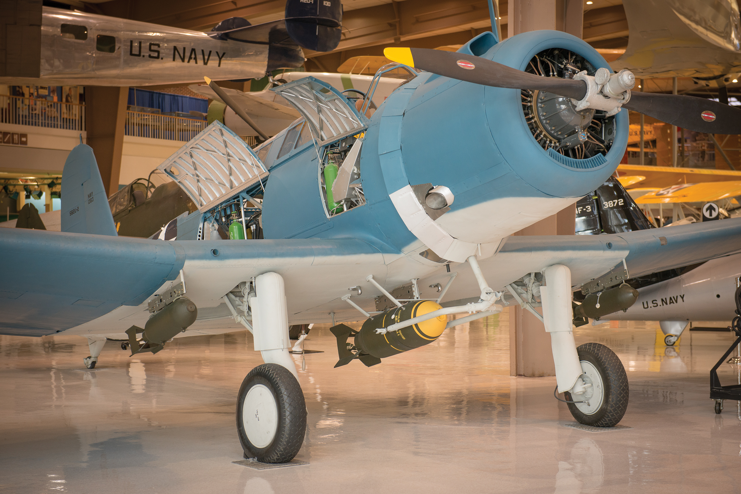 The only known to exist Vought SB2U-2 Vindicator Bureau Number 1383 on display at the National Naval Aviation Museum. Recovered by A and T Recovery from Lake Michigan in 1990. Photo courtesy of the National Naval Aviation Museum.